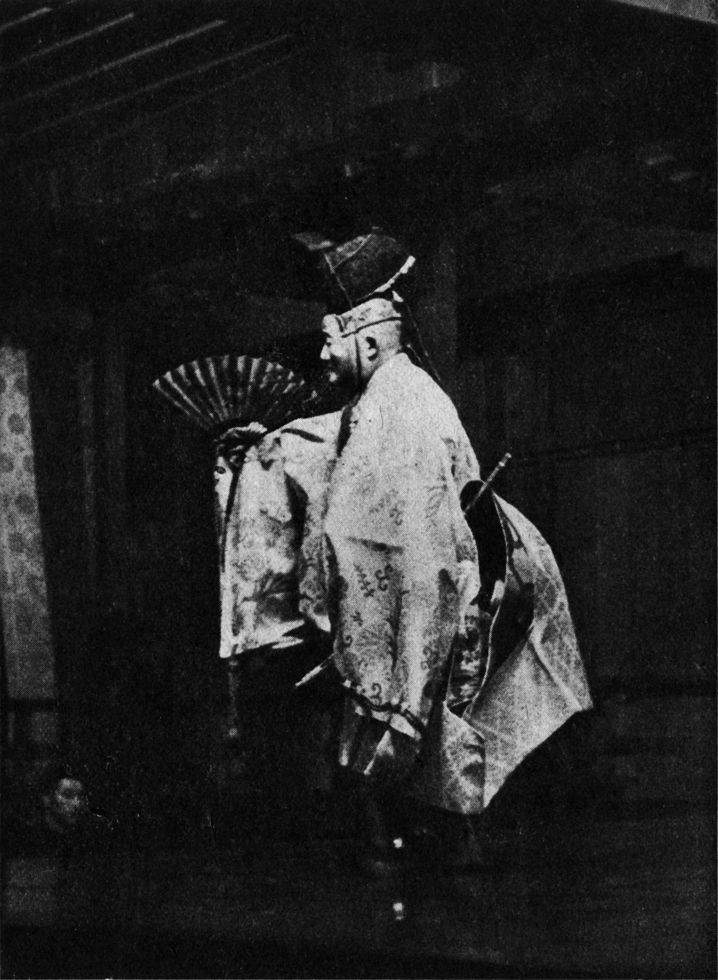 stage photo: Noh play Toru, UMEWAKA Mansaburo(1st)